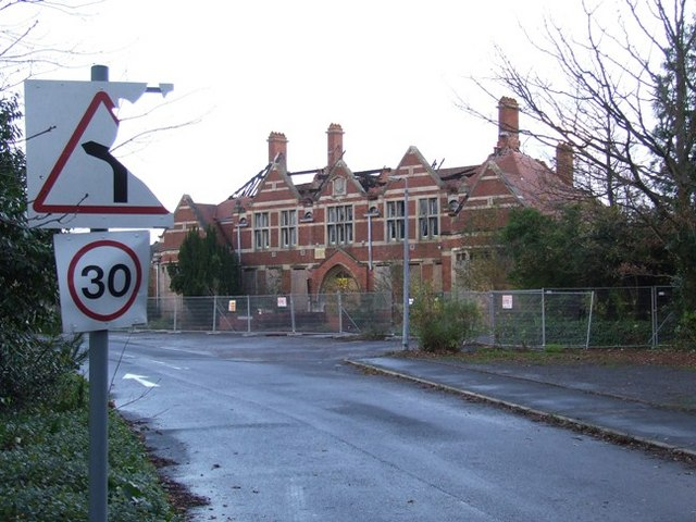 Hellingly Hospital Admin block of Hellingly Hospital, formerly known as the East Sussex County Asylum. Opened in 1903 this vast site (covering most of the grid square) was an enclosed community having a farm, church and even its own railway connected to the nearby Cuckoo Line. Now vandalised and ravaged by the elements it closed in the 1990's apart from the nearby secure unit.